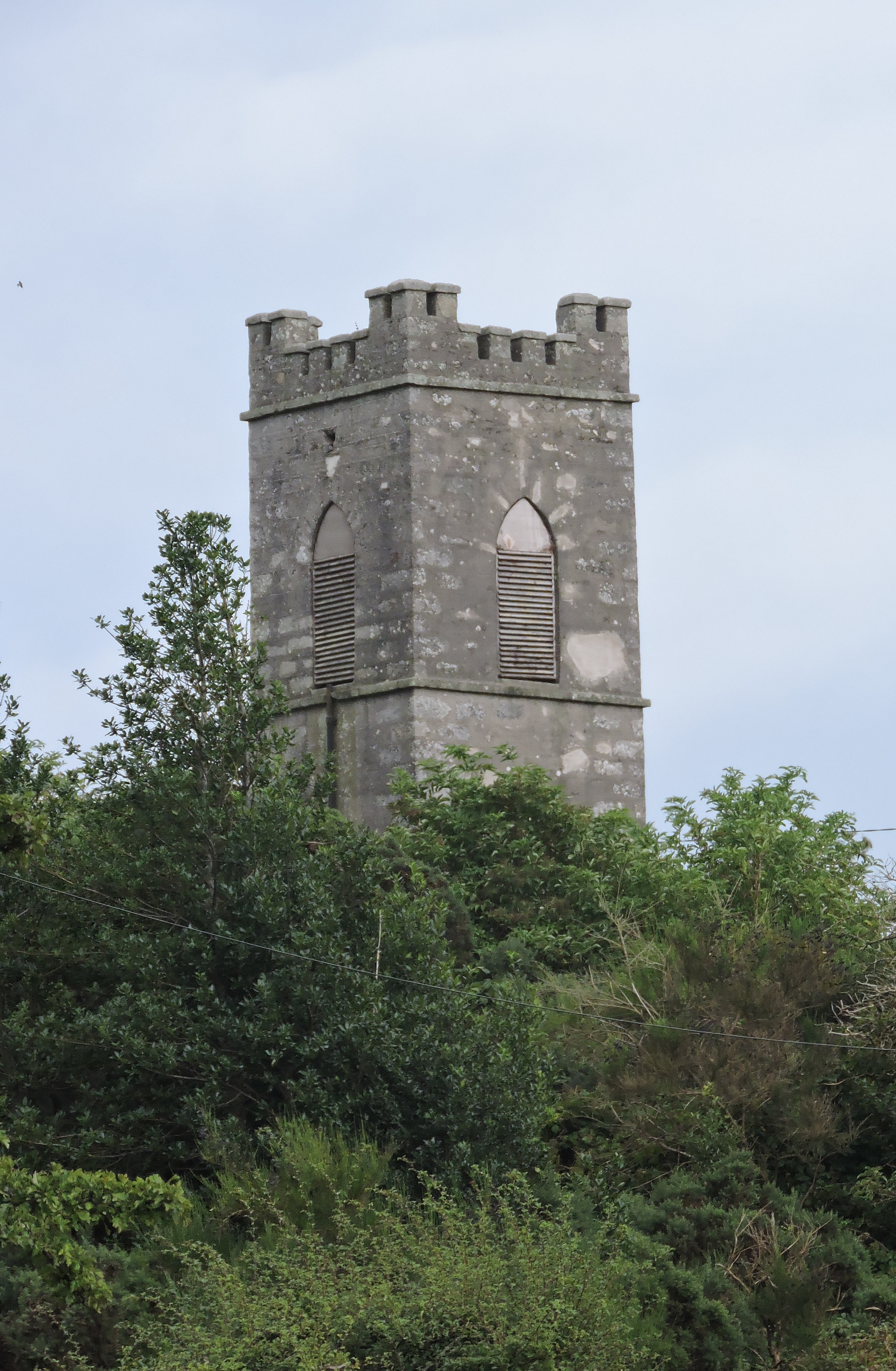 Derralossary Churchyard (Roundwood, county Wickolw)